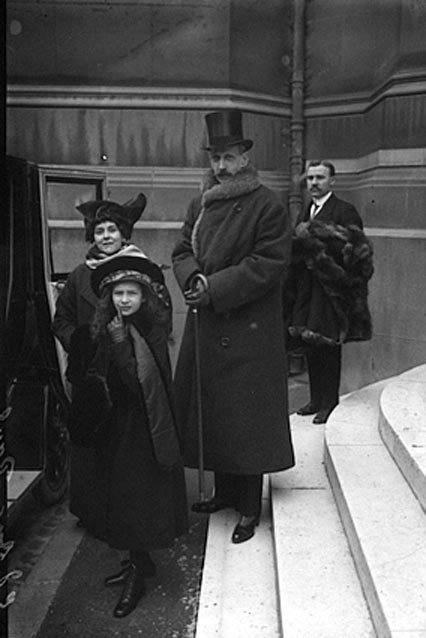 Grand Duke Paul leaves the Paris Opera accompanied by his second wife, Princess Olga Paley, and their daughter, Irina Pavlovna Paley.